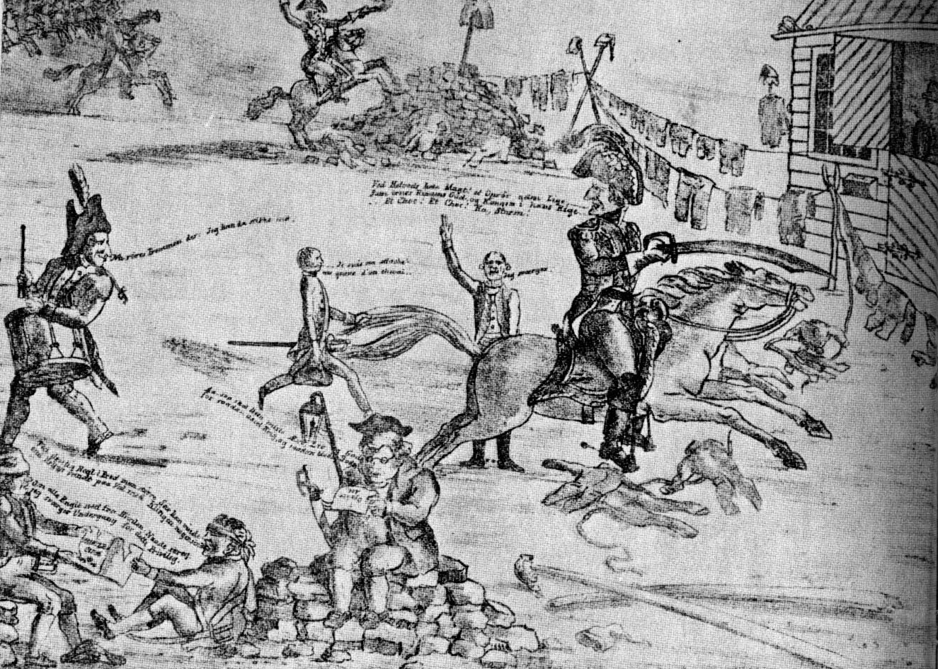 A drawing made by norwegian poet Henrik Wergeland, from the Torvslaget (the battle at the market place) May 17th 1829, published in his play "Phantasmer" the same year. Torvslaget was an act of repression from the swedish government in order to prevent the first public celebration of the Constitution Day